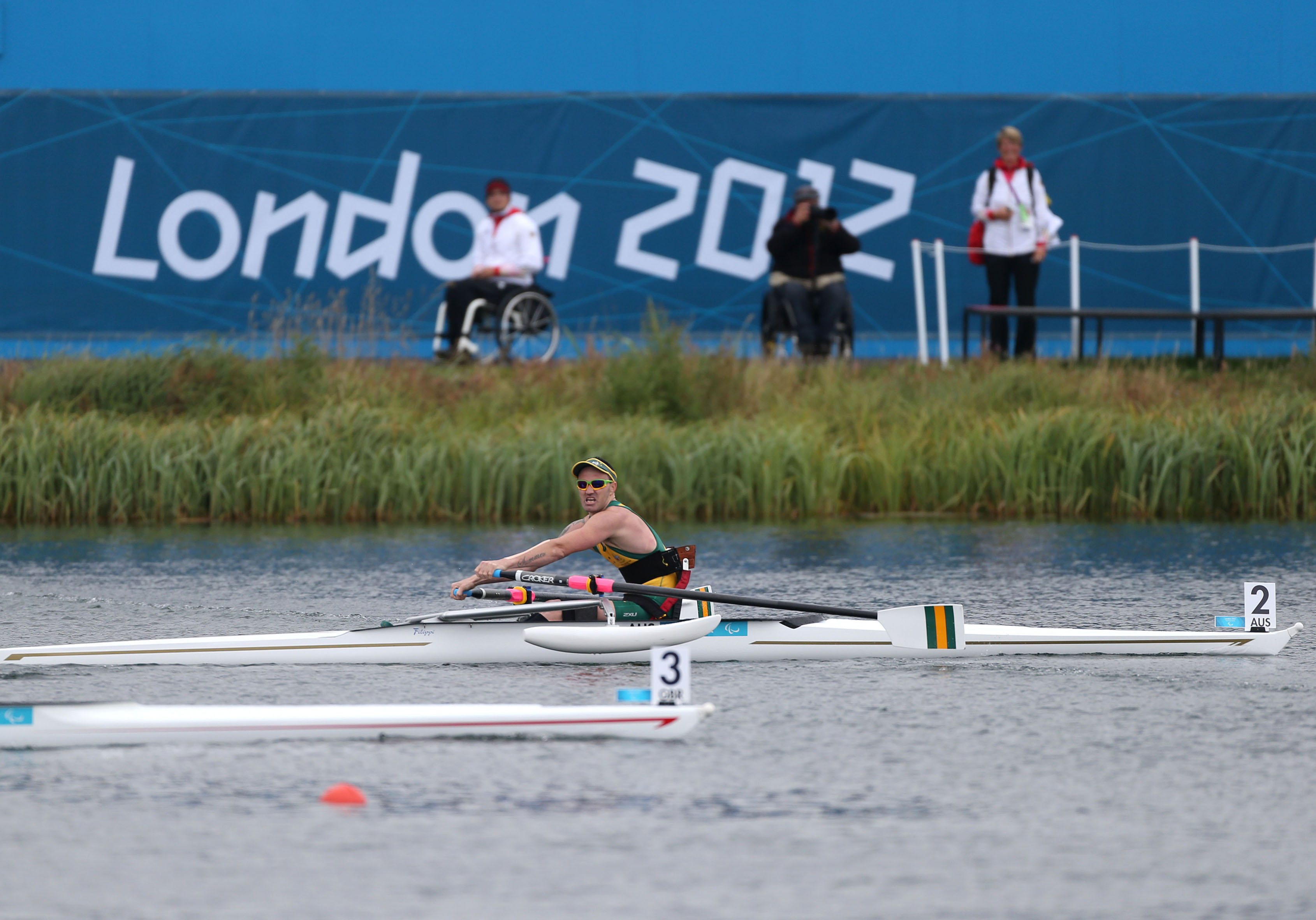 Photograph of Australian Paralympic team member Erik Horrie at the 2012 Summer Paralympic Games in London